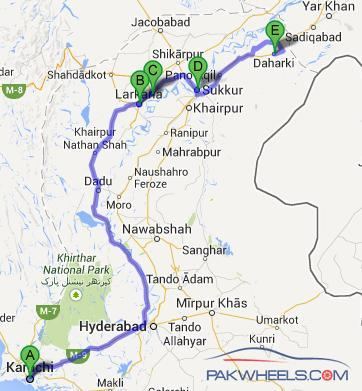 Mape Of Daharki